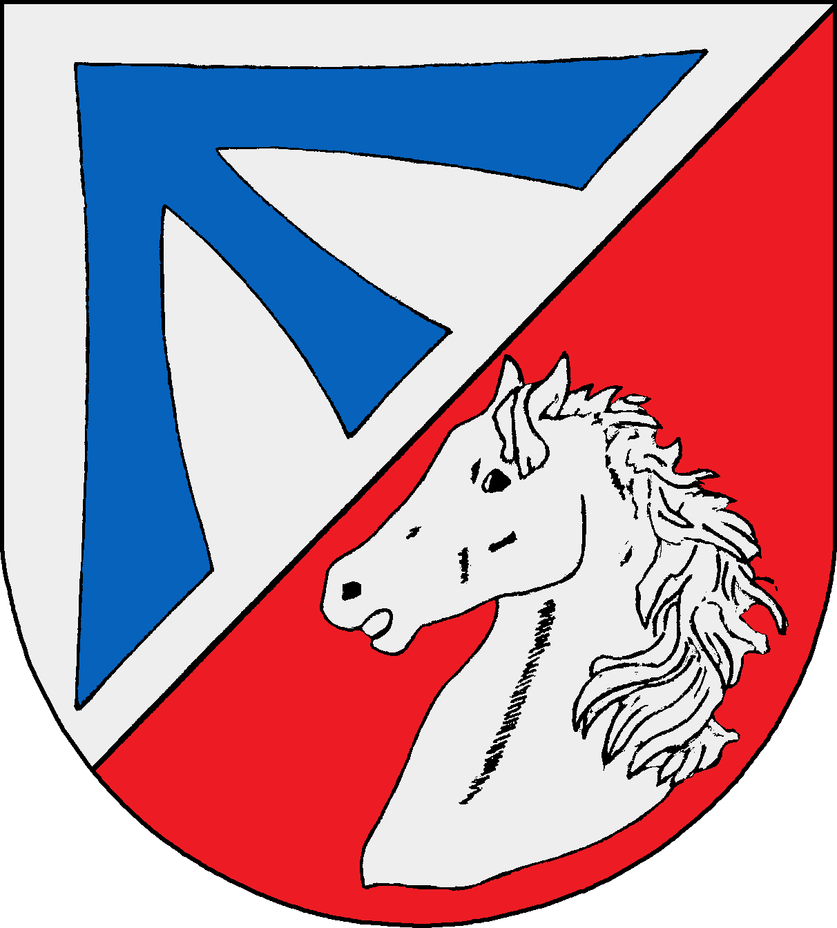 Coat of arms of the municipality Krummesse in Schleswig-Holstein, Germany.